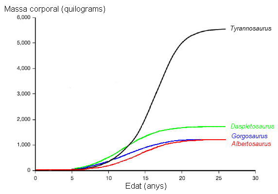 Graph of tyrannosaurid growth rates.